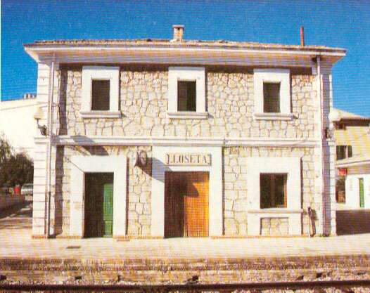 Ferrovial Station of Lloseta (Majorca, Spain)